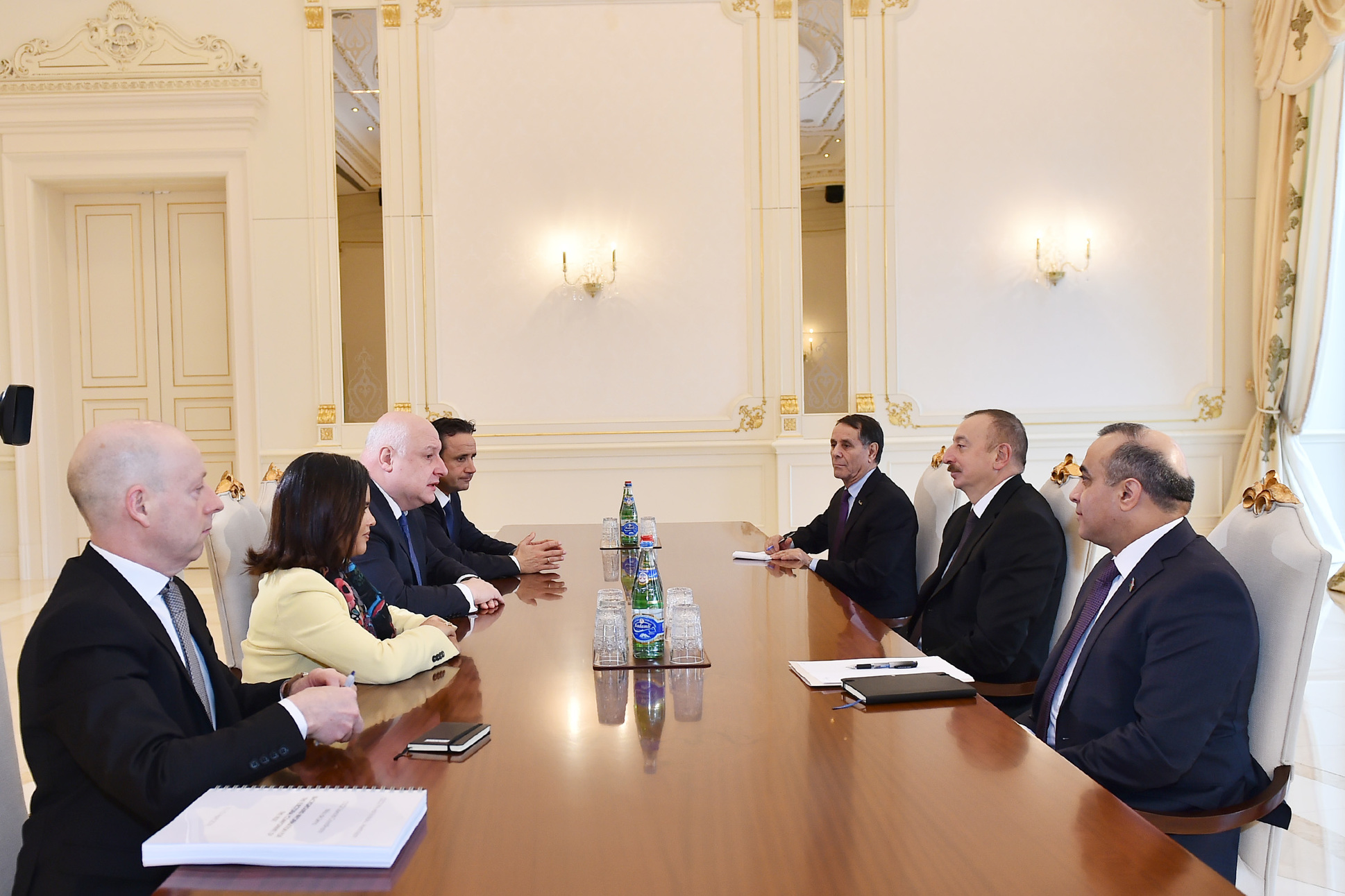 Ilham Aliyev received delegation led by OSCE Parliamentary Assembly president